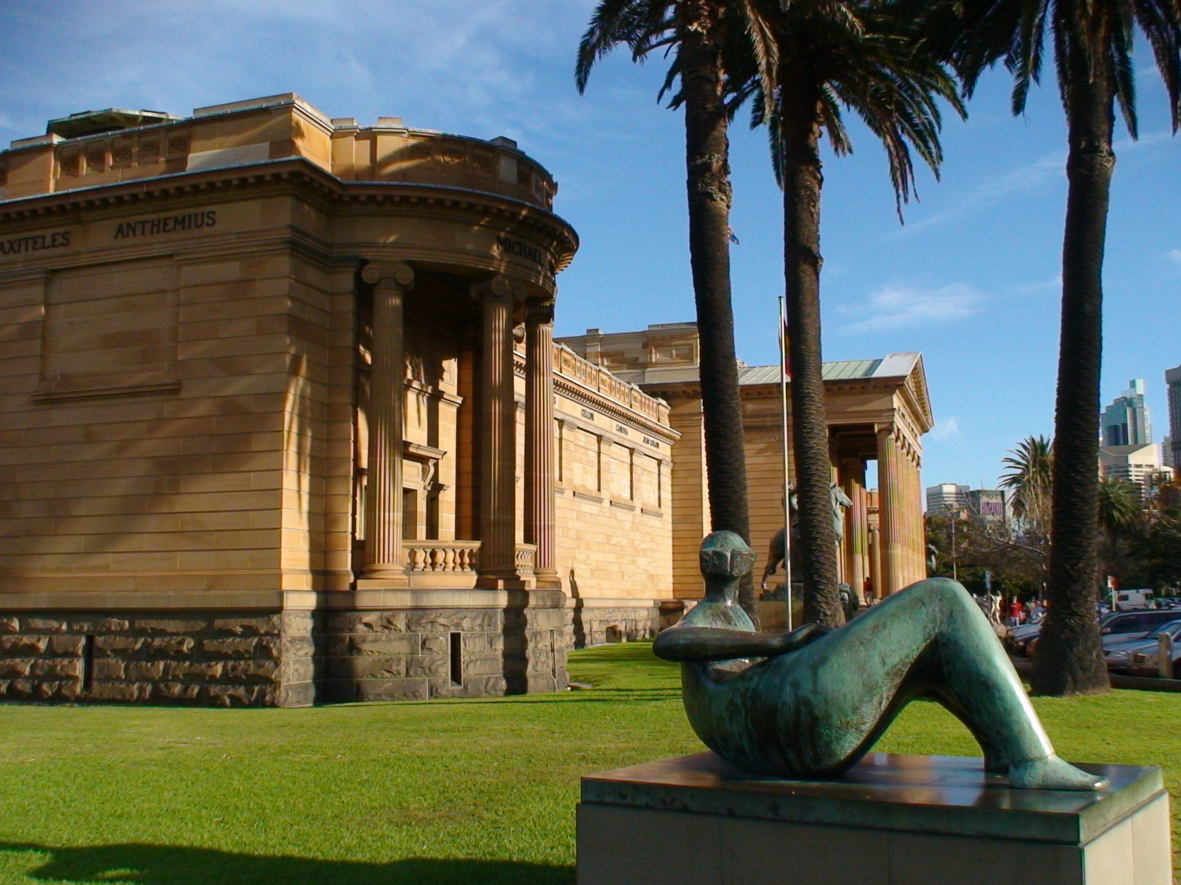 The exterior of Art Gallery of New South Wales in Sydney